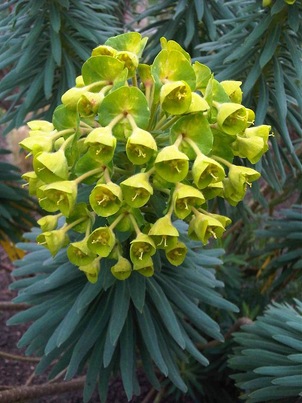 Mediterranean Spurge (Euphorbia characias subsp. wulfenii) flowers in Kew Gardens, England.